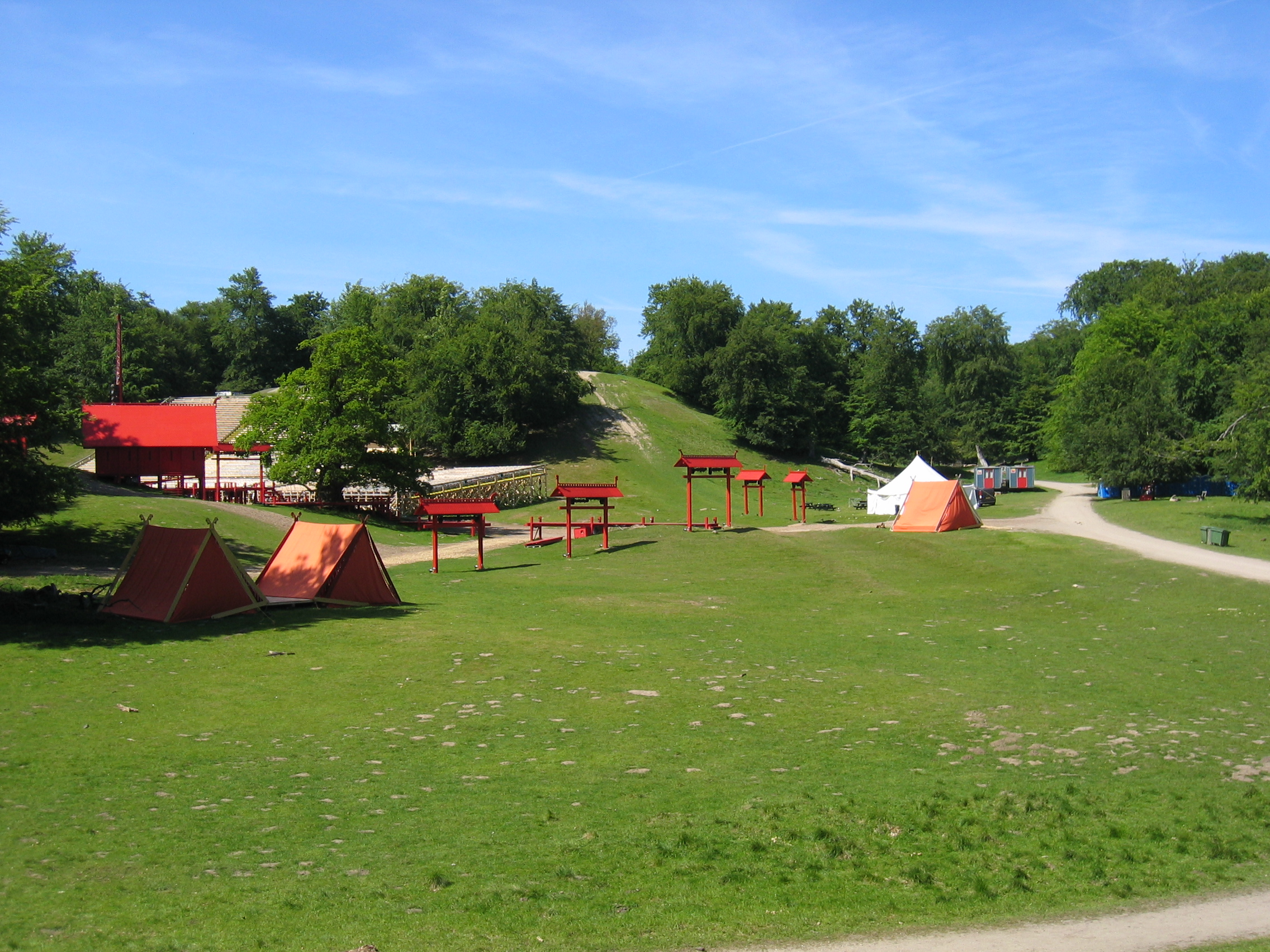 View from south of Ulvedalene, Jægersborg Deer Park, Denmark.